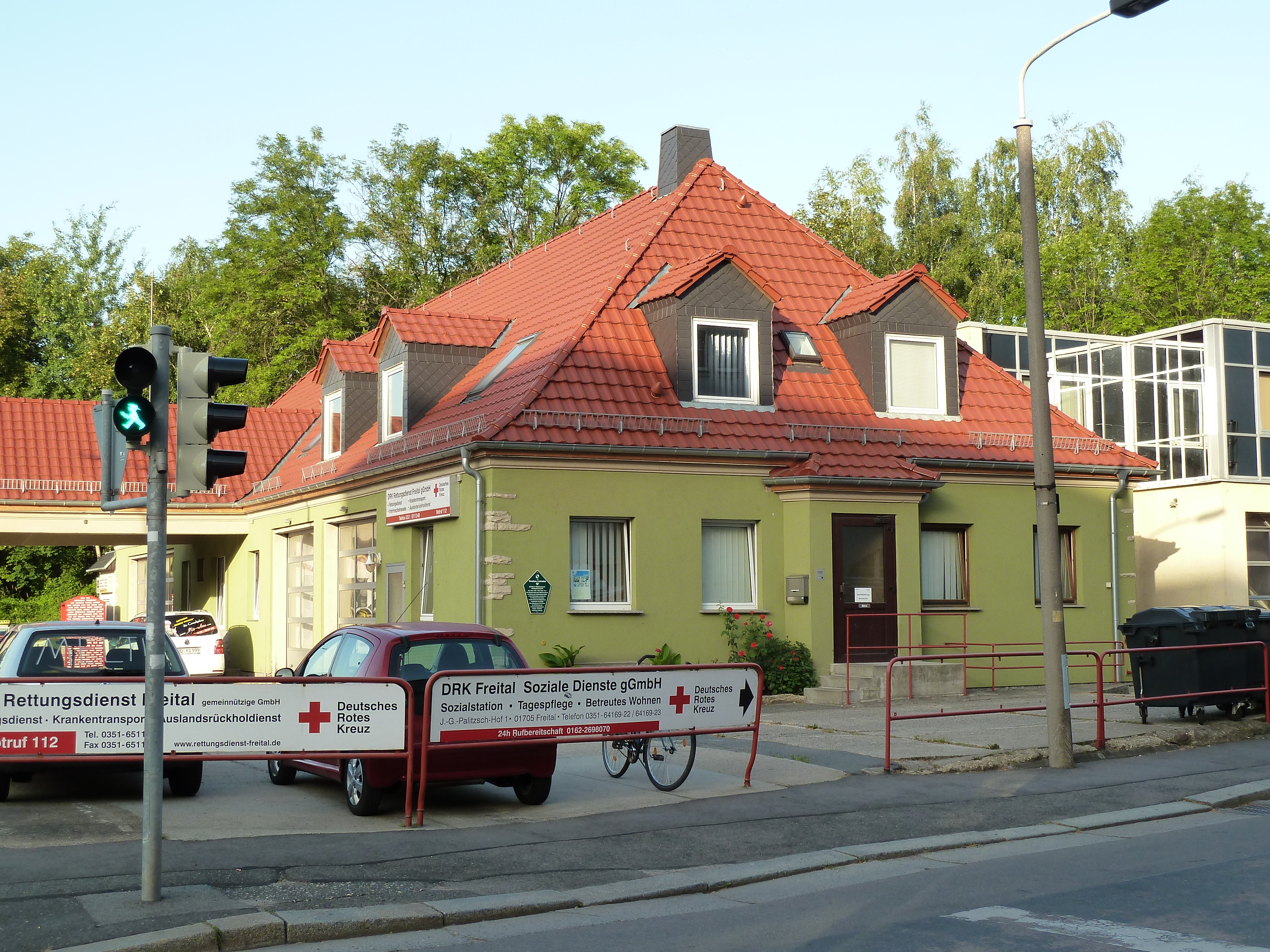 Fan house (1858—1908) above the Doehlen airshaft of the Royal Saxon Colliery Zauckerode (Freital). From 1858 until 1873 a two-cylinder piston pump ventilated the underground colliery by a 75 m deep airshaft. The pump was driven by a water wheel at the nearby Weisseritz; the power was transferred by an overhead flatrod system. The piston stroke was more than one meter. Later on (1873—1908) the piston pump was replaced by a steam-driven Guibal fan.